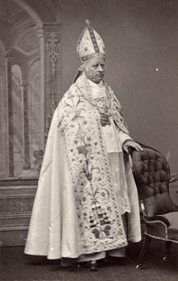 Laurence Bonaventure Sheil, bishop of Adelaide from 1866 to 1872 - Australia